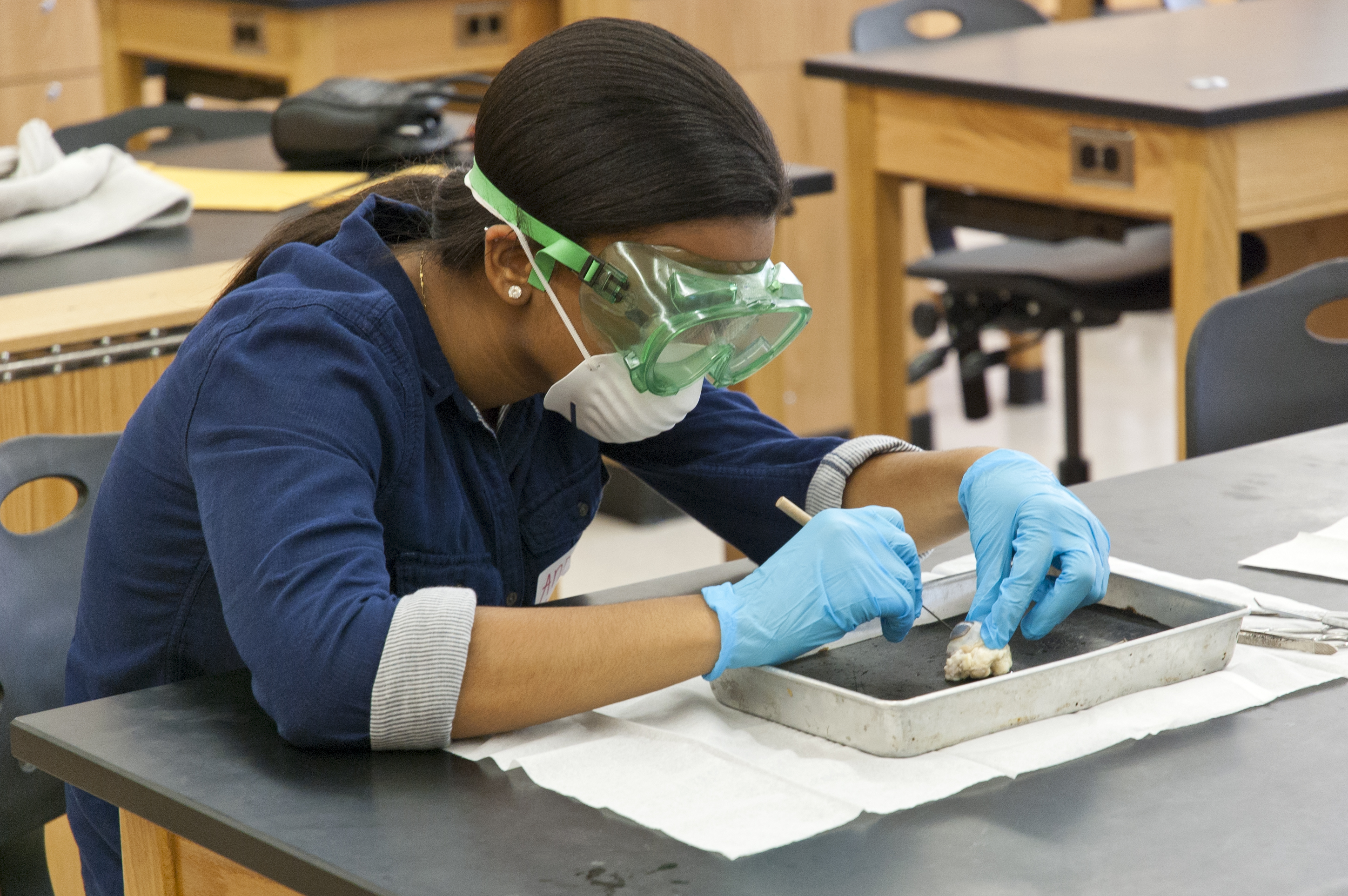 A young teen girl in New York shown dissecting an animal eye as part of a class based on teaching students about optics.